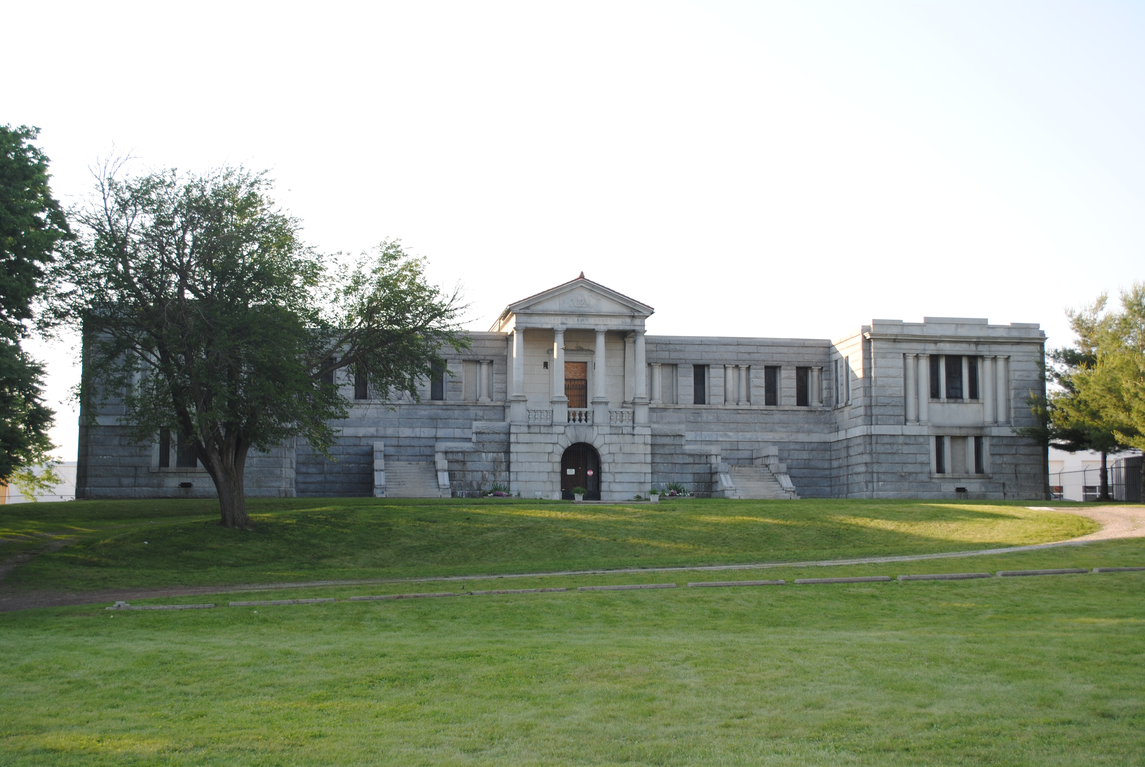 Greenlawn Abbey Mausoleum in Columbus, Ohio